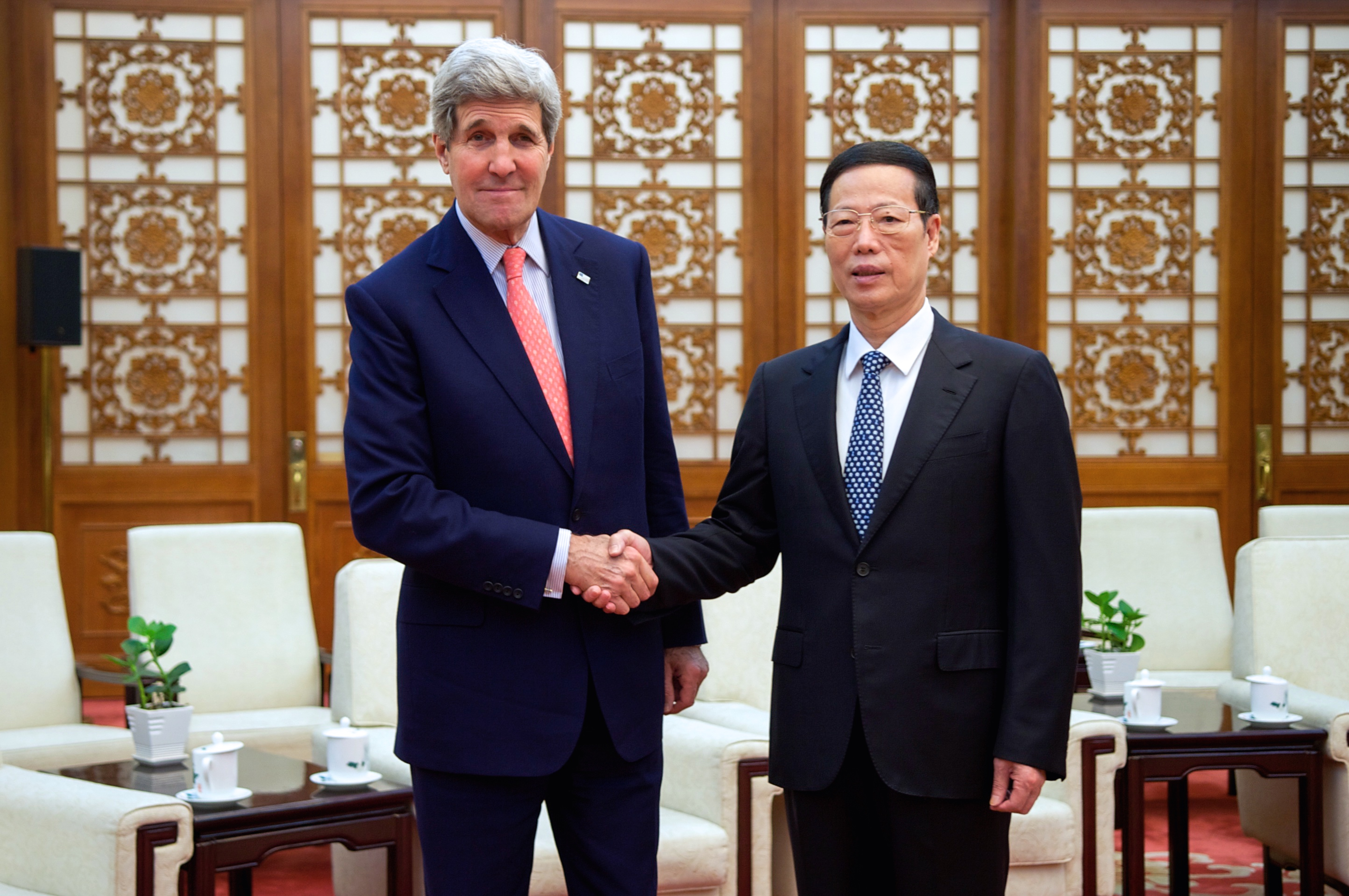 Vice Premier of China Zhang Gaoli, whose portfolio includes environmental issues, shakes hands with U.S. Secretary of State John Kerry before a meeting about climate change and other topics at the Great Hall of the People in Beijing, China, on November 11, 2014. [State Department photo/ Public Domain]